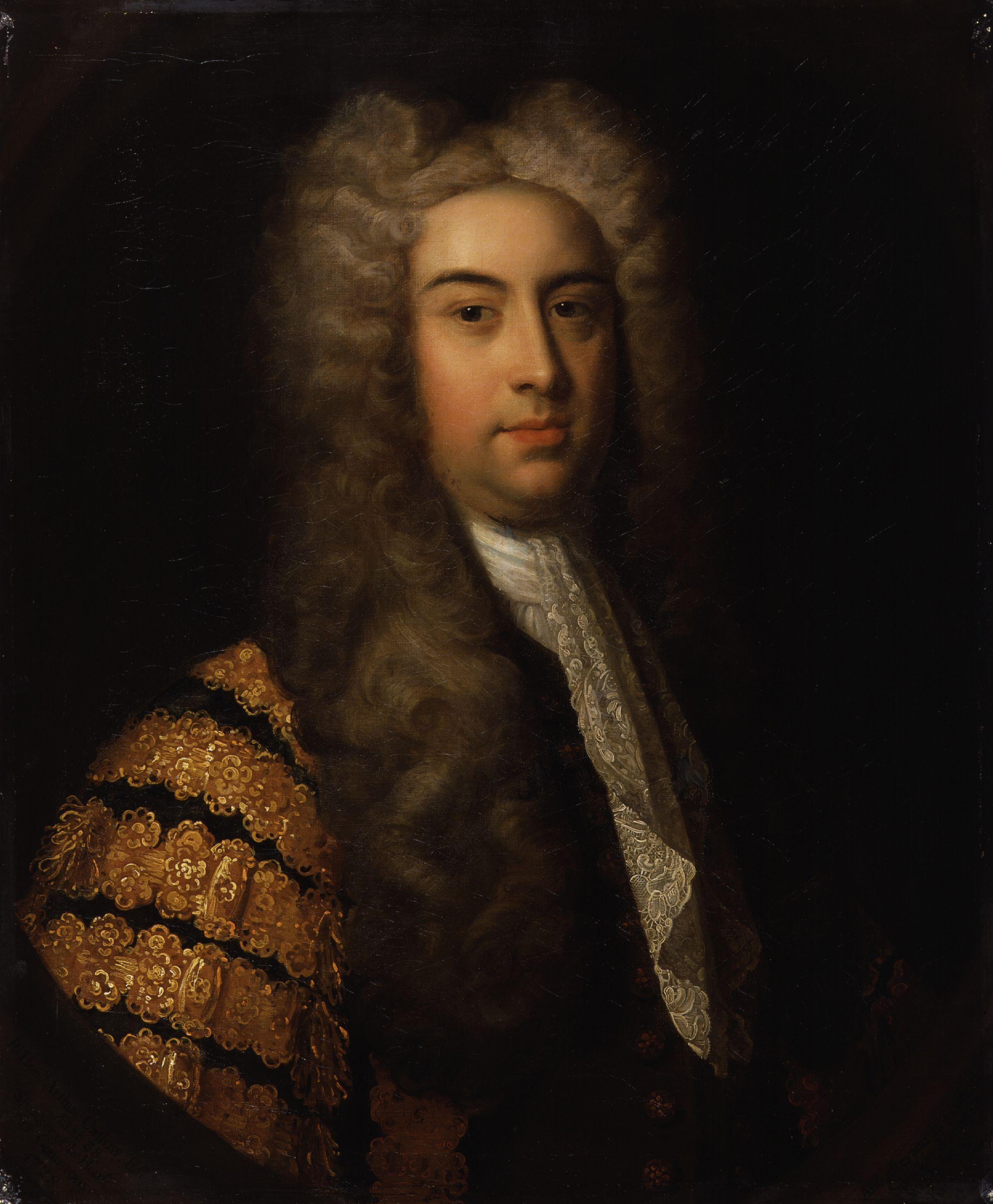 All images in this batch have a known author, but have manually examined for strong evidence that the author was dead before 1939, such as approximate death dates, birth dates, floruit dates, and publication dates. In this case the DNB assigns the approx year of construction.